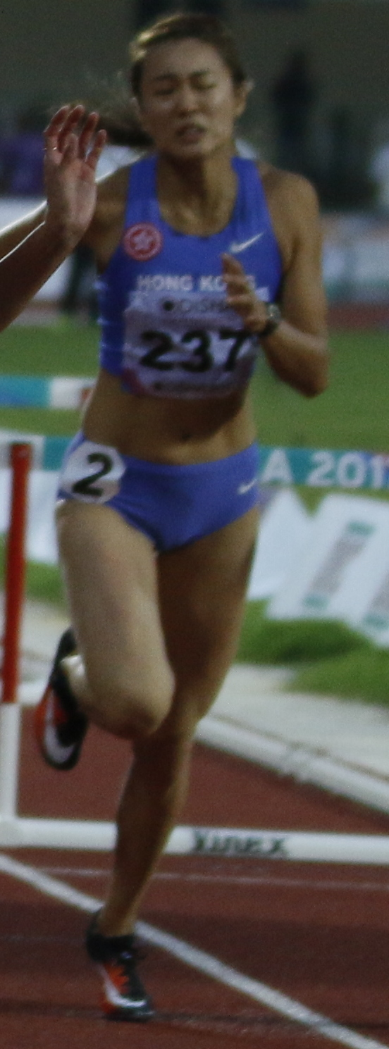 from the 22nd Asian Games in Odisha. 2017 Asian Athletics Championships. 6 to 9 July 2017 at the Kalinga Stadium in Bhubaneswar